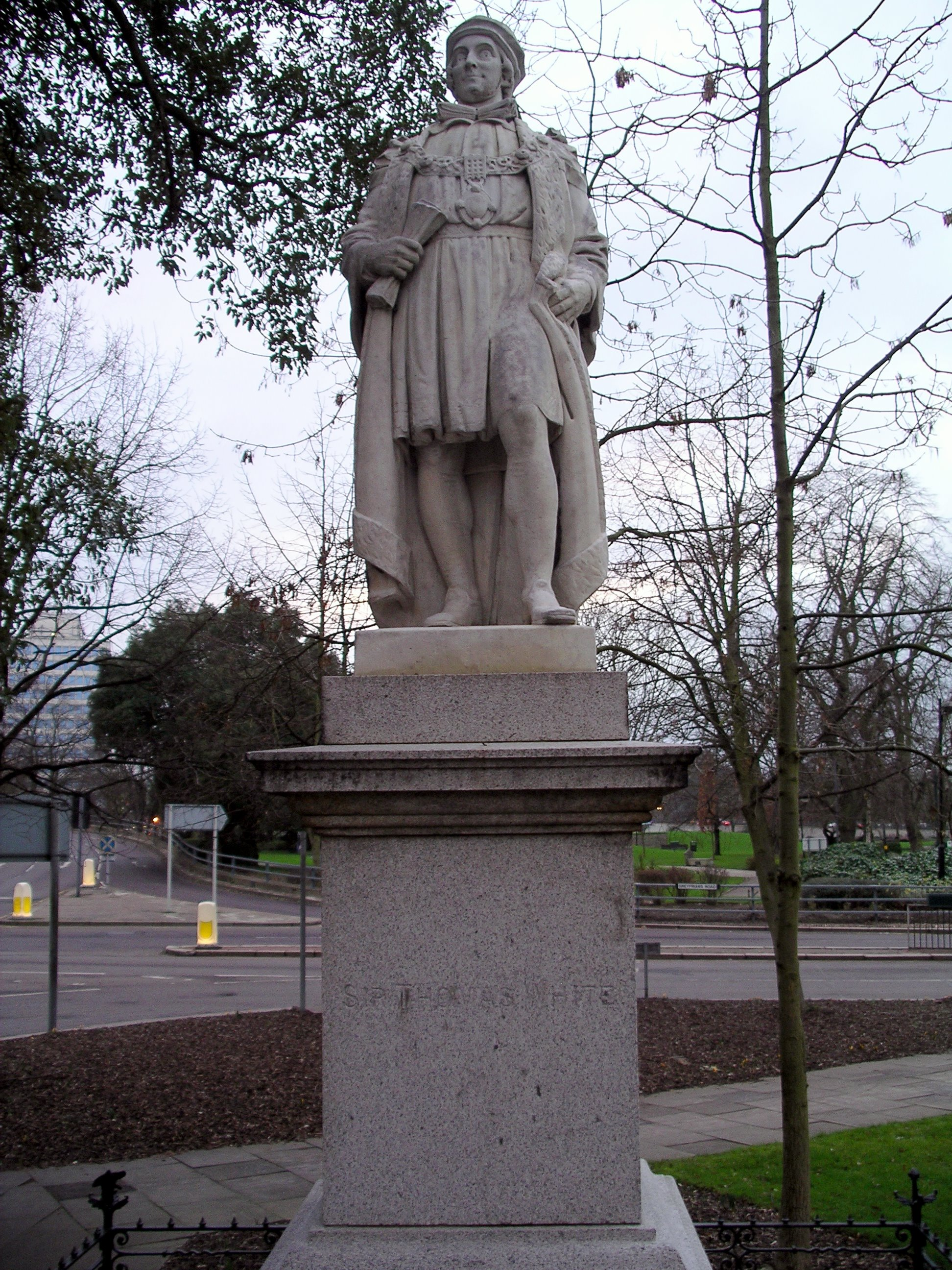 Statue in Warwick Row, Coventry, of Sir Thomas White, English cloth merchant, civic benefactor and founder of St John's College, Oxford. Photo taken on 29 January 2007